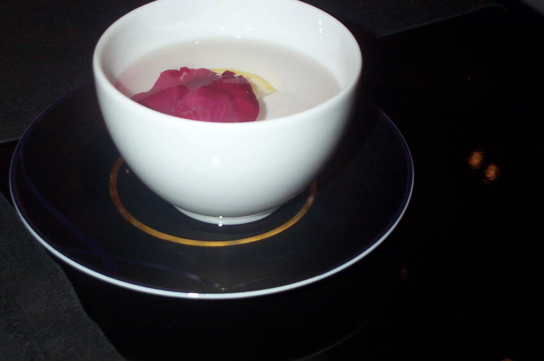 A finger bowl of white china, filled with water and a lemon slice and decorated with rose petals. Part of a dinner service at the Joel Robuchon restaurant in the MGM Grand in Las Vegas.